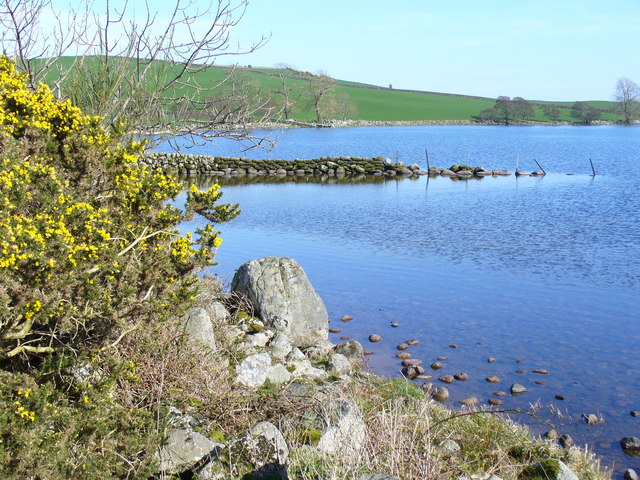 Loch Kindar Shore The loch is stocked for anglers. The eastern shore is farmland and the western bank is fringed by gorse and woodland.